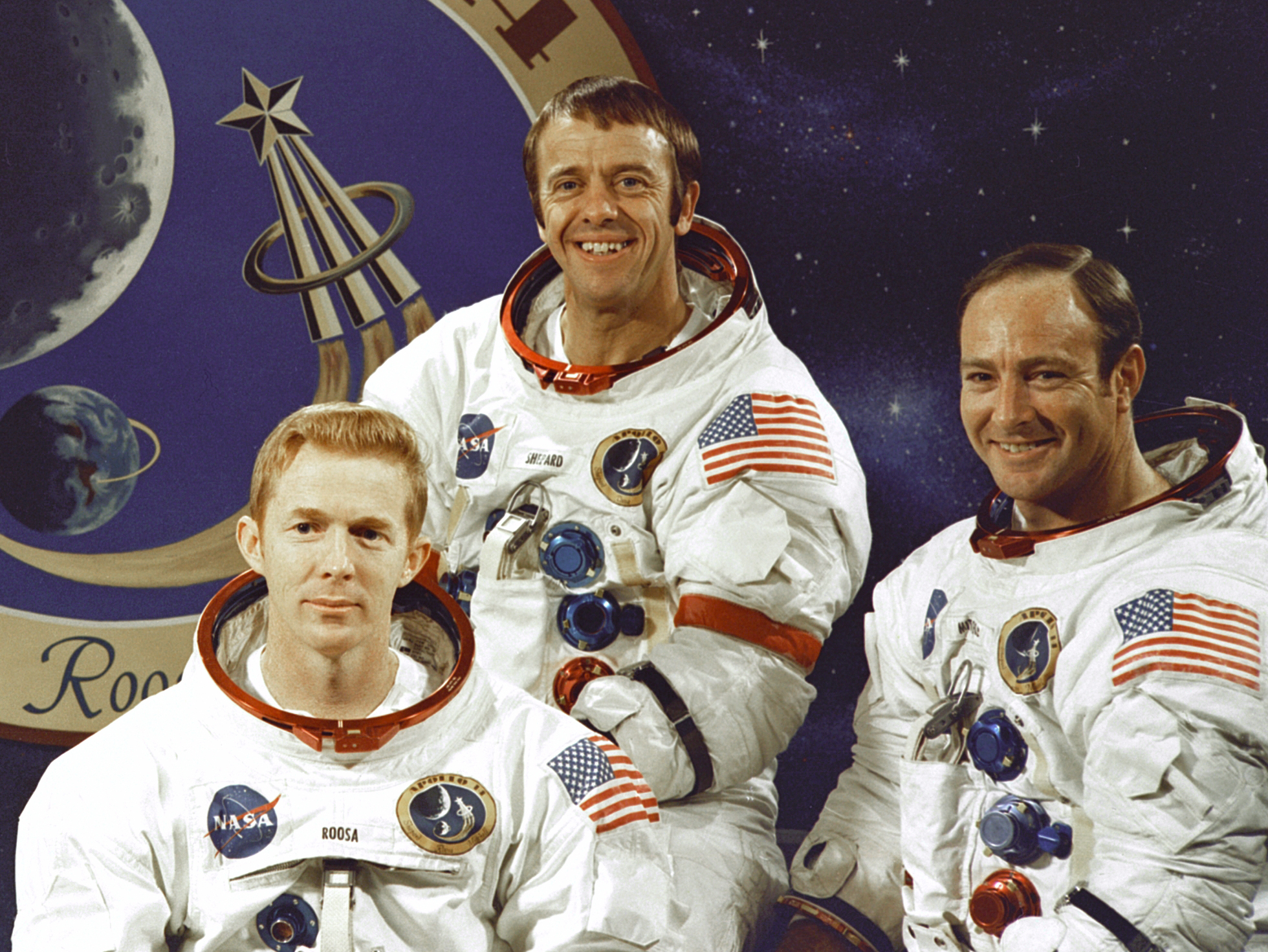 The prime crew of the Apollo 14 lunar landing mission. From left to right they are: Command Module pilot, Stuart A. Roosa, Commander, Alan B. Shepard Jr. and Lunar Module pilot Edgar D. Mitchell. The Apollo 14 mission emblem is in the background.